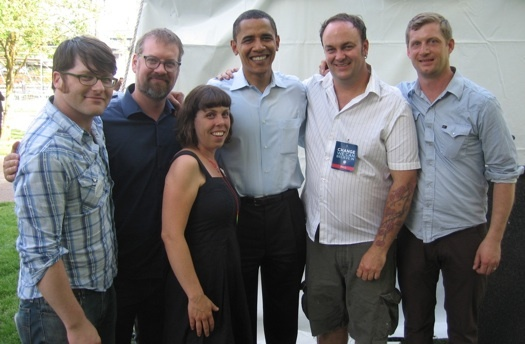 The Decemberists (Colin Meloy, John Moen, Jenny Conlee, Chris Funk, Nate Query) & Barack Obama